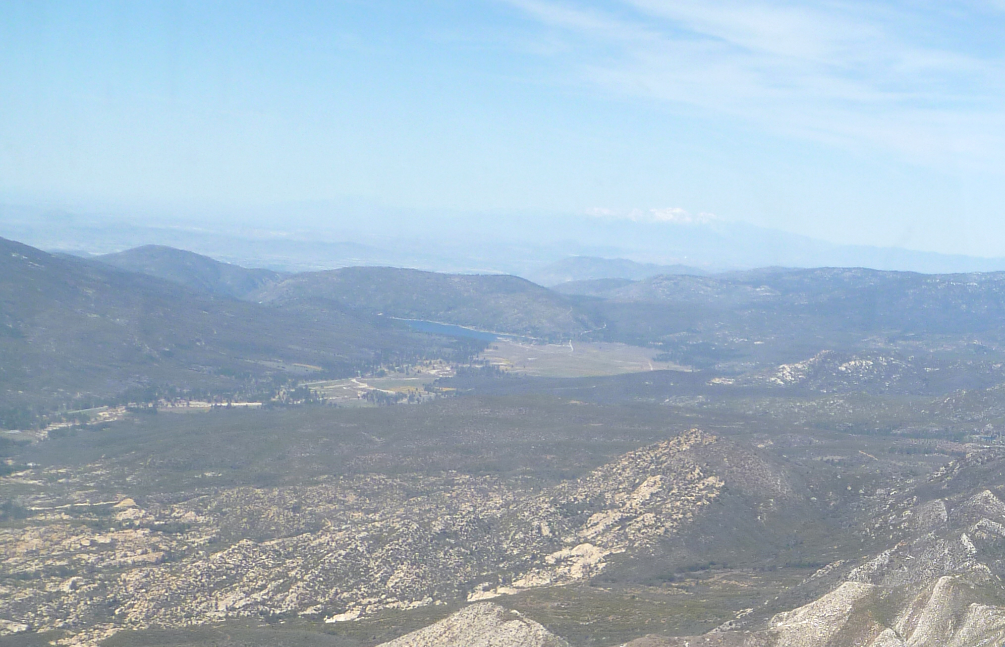 Aerial photo of Lake Hemet as seen from above the Anza Pass at 8,500 feet MSL.